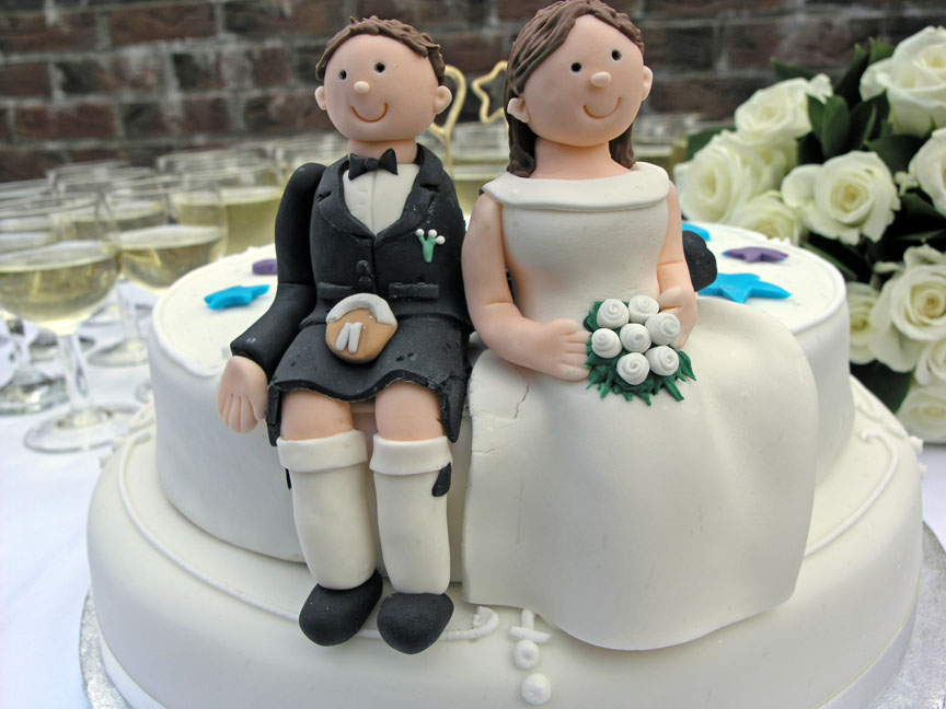 Novelty wedding cake